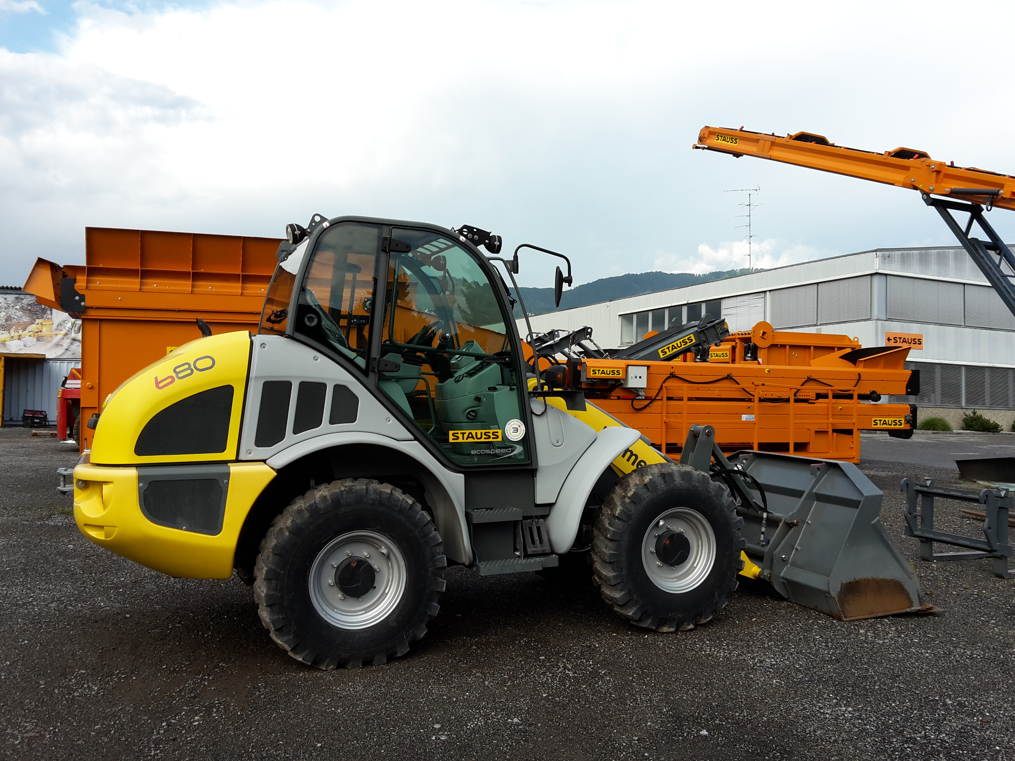 Kramer loader 680 ecospeed in Dornbirn, Vorarlberg, Austria.